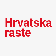 Hrvatska raste/Croatia grows coaltion logo